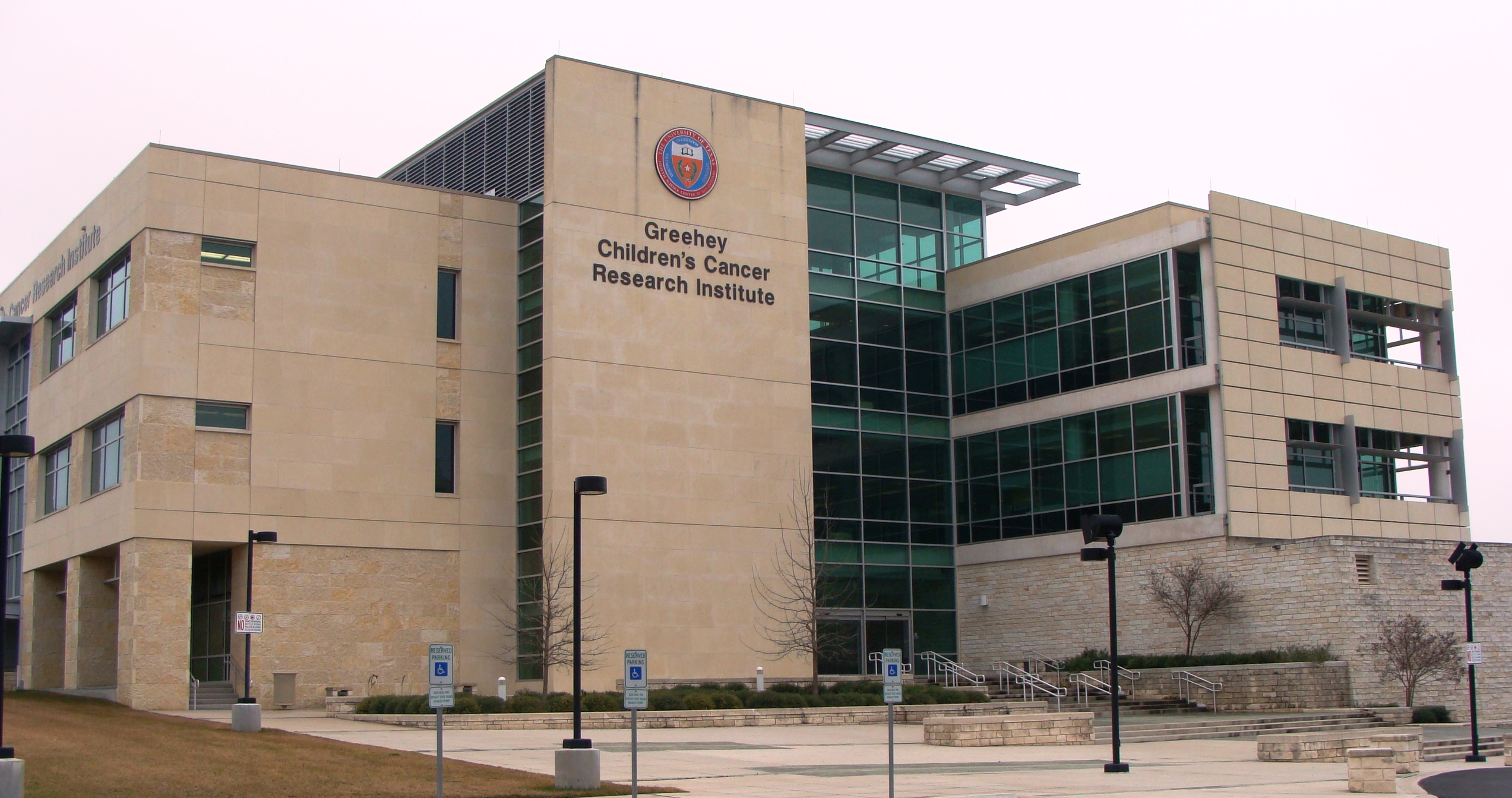 Greehey Children's Cancer Risearch Institute